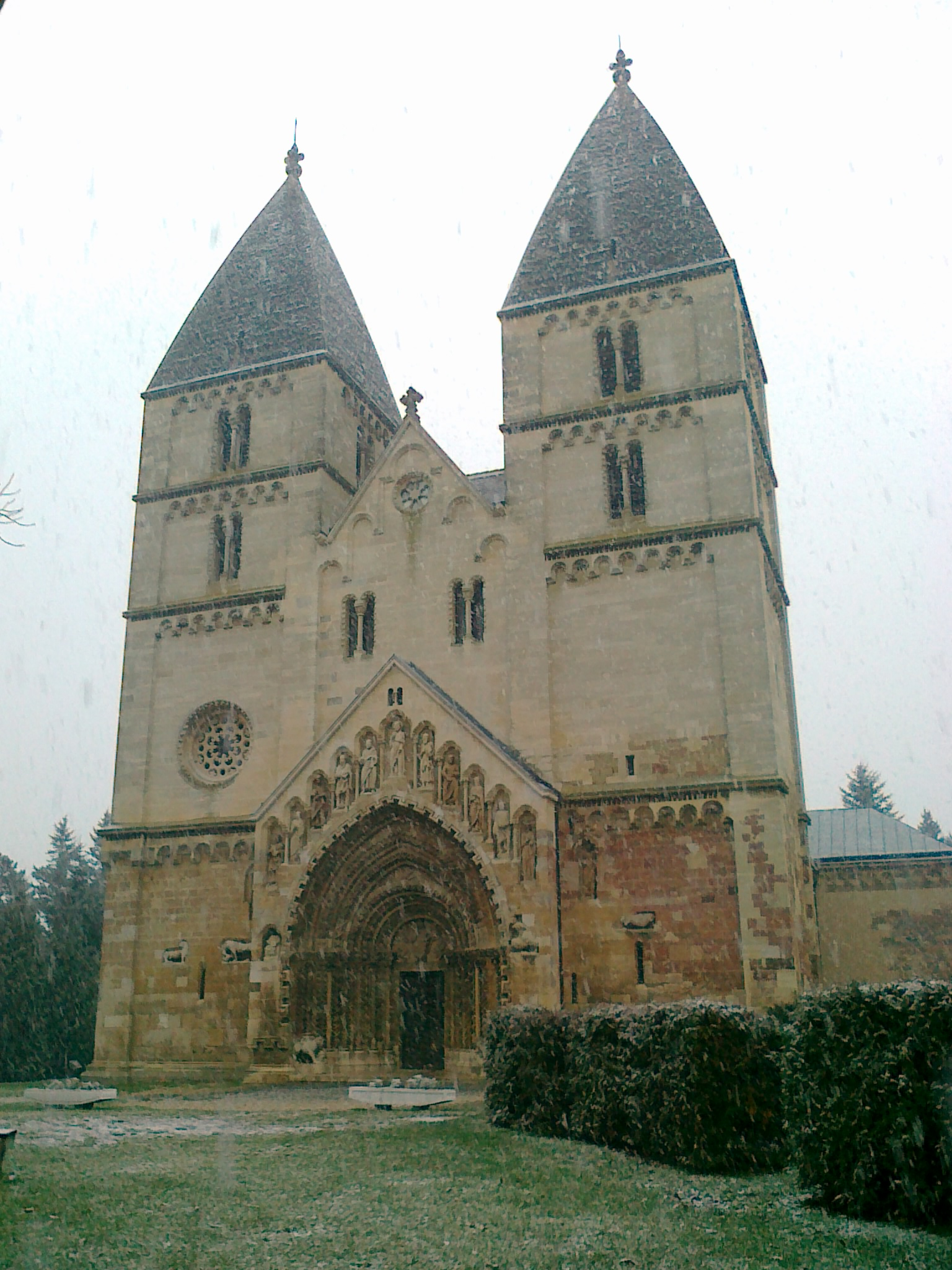 Church of Ják, Hungary